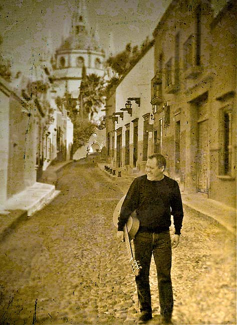 This photo was shot on Aldama Street in San Miguel de Allende Mexico of guitarist Gil Gutiérrez